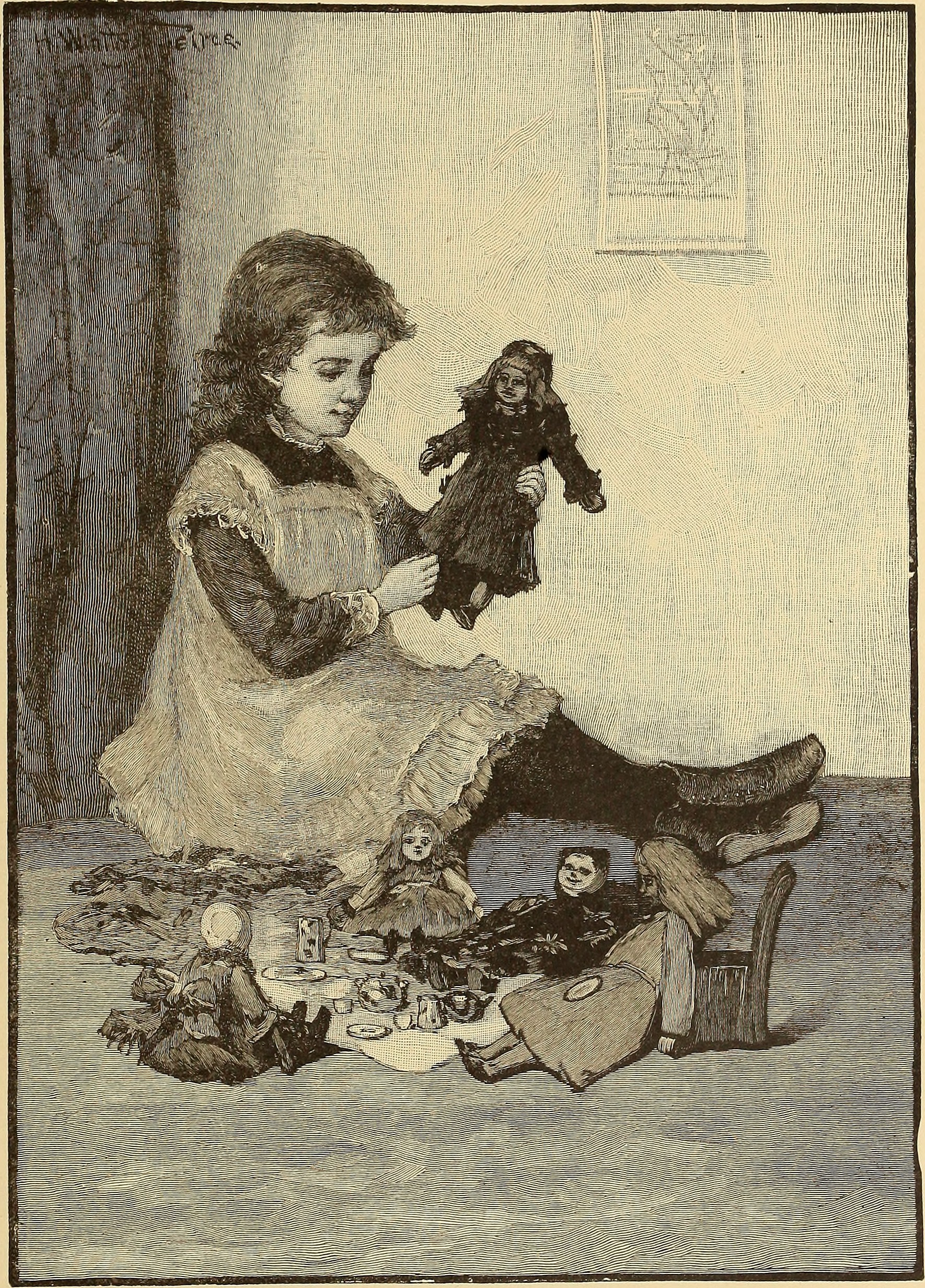 Heman Winthrop Peirce: The Doll's Party Title: American art and American art collections; essays on artistic subjects Year: 1889 (1880s) Authors: Montgomery, Walter Subjects: Art Artists Art Publisher: Boston, E.W. Walker & co Text Appearing Before Image: Moonrise. Drawn by Peirce. she can claim the first and the last as her own children; for the great woman-novelist was born in Loamshire (as she called it) about twenty miles from Stratford. The following pen-picture ofsome of her attractions was written by Charles Kingsleys daughter Rose. This midland county has a charm of its own. There is a peaceful beauty in the rolling grass-pastures as the sun catches the side of the lands, the ridge and furrow) that tell of cultivationhundreds of years old. Red and white shorthorn cows group themselves under the great elms andoaks, in whose tops the rooks are feeding their ravenous young. Down in the hollow the windingbrook — some tributary of the Avon — runs, fringed with aged pollard willows and hawthorns,through whose branches the wild roses toss straggling shoots all flecked with pale pink shell-likeblossoms. In the shallows the brown water races over bars of clay worn as hard as rock. In the Text Appearing After Image: THE DOLLS PARTY. DRAWN BY H. WINTHROP PEIRCE. AMERICAN ART 375 pools beneath the banks the black moor-hen lurks, or a stately heron watches for his prey. Beyondthe brook roll rich red fallows, now flushed with the pale green of growing wheat, or golden withripening grain. The farmhouse and buildings make a point of vivid color in the picture, their crudered toned down by purple shadows and soft browns and yellows among the stacks in the rick-yard.There are some suggestions for pictures in Miss Kingsleys lines of which Winthrop Peirce wouldmake delightful realities.